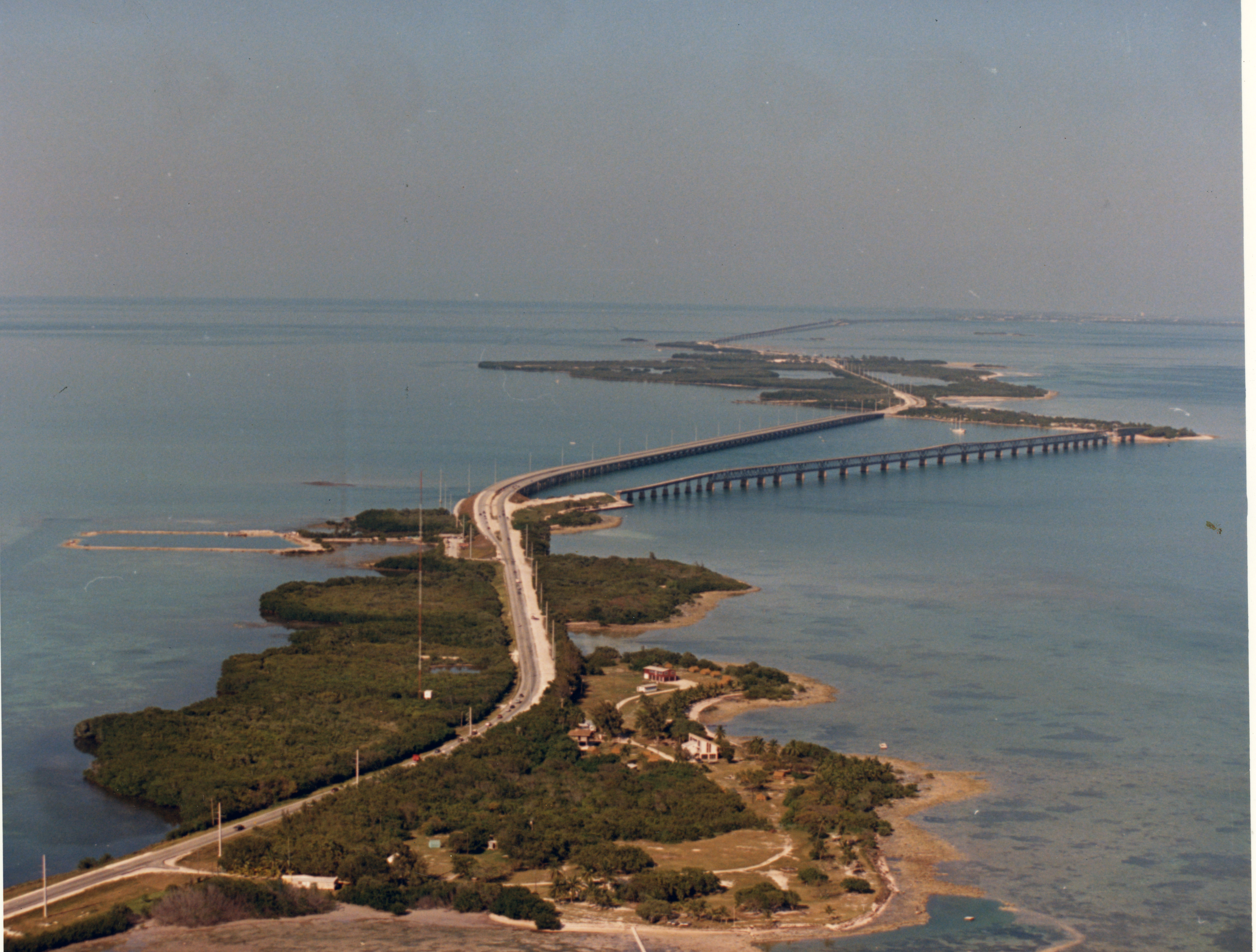 An aerial of West Summerland Key and the Boy Scout Camp. Photo taken by the Federal Government on October 7, 1987. From the Wright Langley Collection.